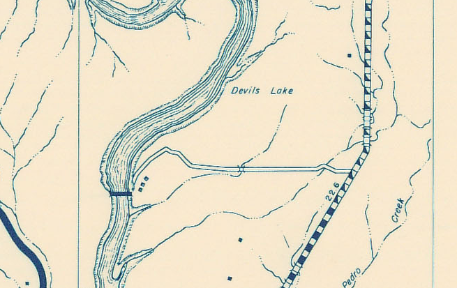 A map of Texas Recreational Road 2 circa 1940.